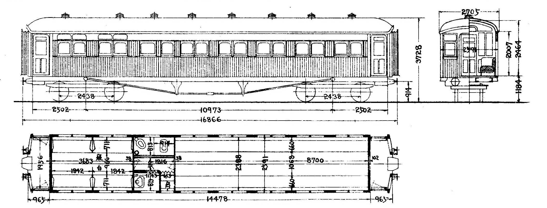 Type drawing of JGR's Ronero5135 type passenger car